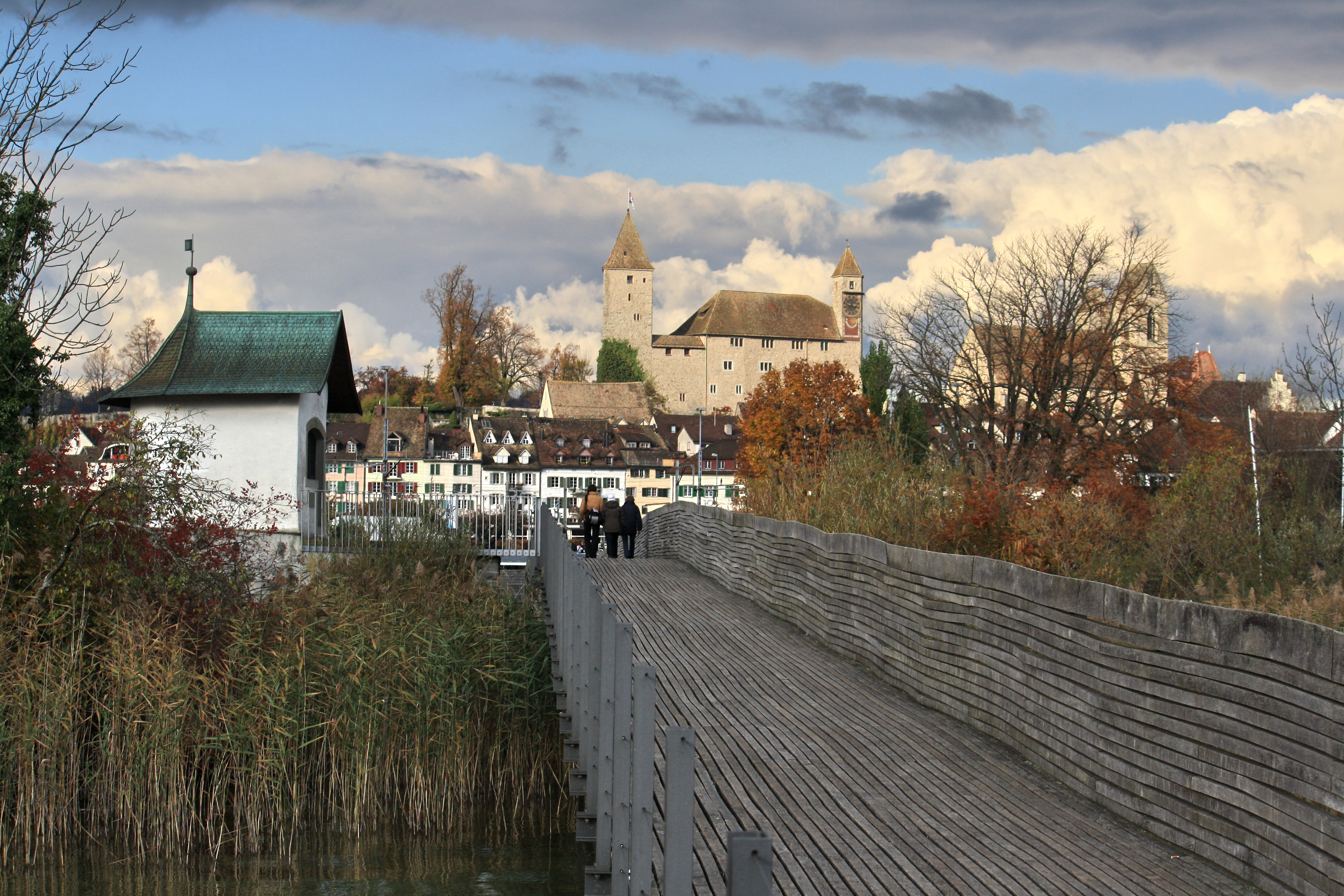 Rapperswil (SG) : Castle and St. John's Church of Rapperswil in the background, as seen from Pilgersteg (Pilgrim's bridge) Rapperswil-Hurden, crossing Obersee (upper Lake Zurich), «Heilig Hüsli» chapel to the left, Rapperswil castle, Altstadt and St. Johann (St. John's Church) (to the right).